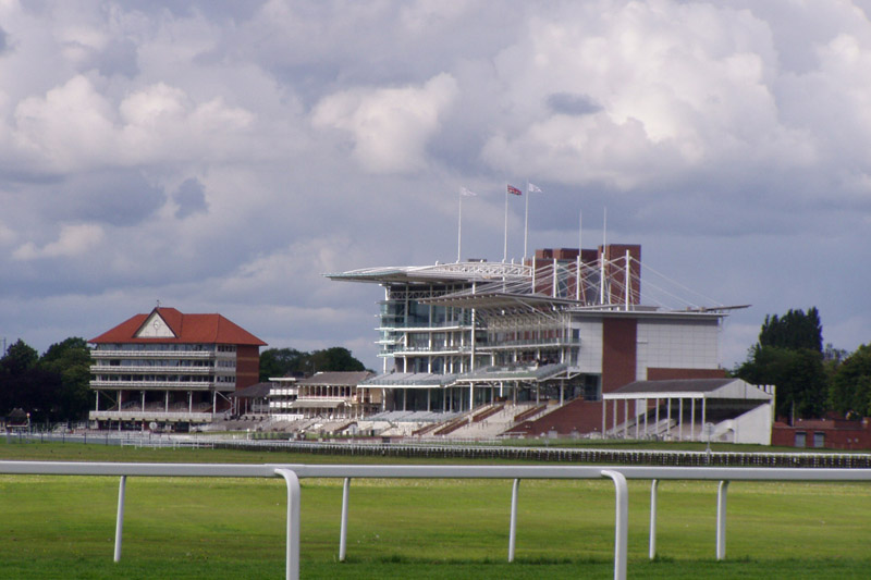 A view of the Ebor stand at York Racecourse. Photo taken 18 June 2005 by John Slade and released into the public domain.